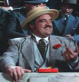 Cropped screenshot of Laird Cregar from the trailer for the film Blood and Sand.